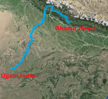 This is Route Showing how Ghimire Ancestor Gudpal Bias Entered Nepal and Reached Ghamir (Dhamir) From Ujjain, India.